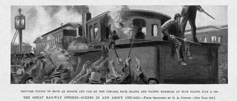 Picture by G.A. Coffin entitled “Deputies Trying to Move an Engine and Car on the Chicago, Rock Island, and Pacific Railroad at Blue Island, July 2, 1894”.